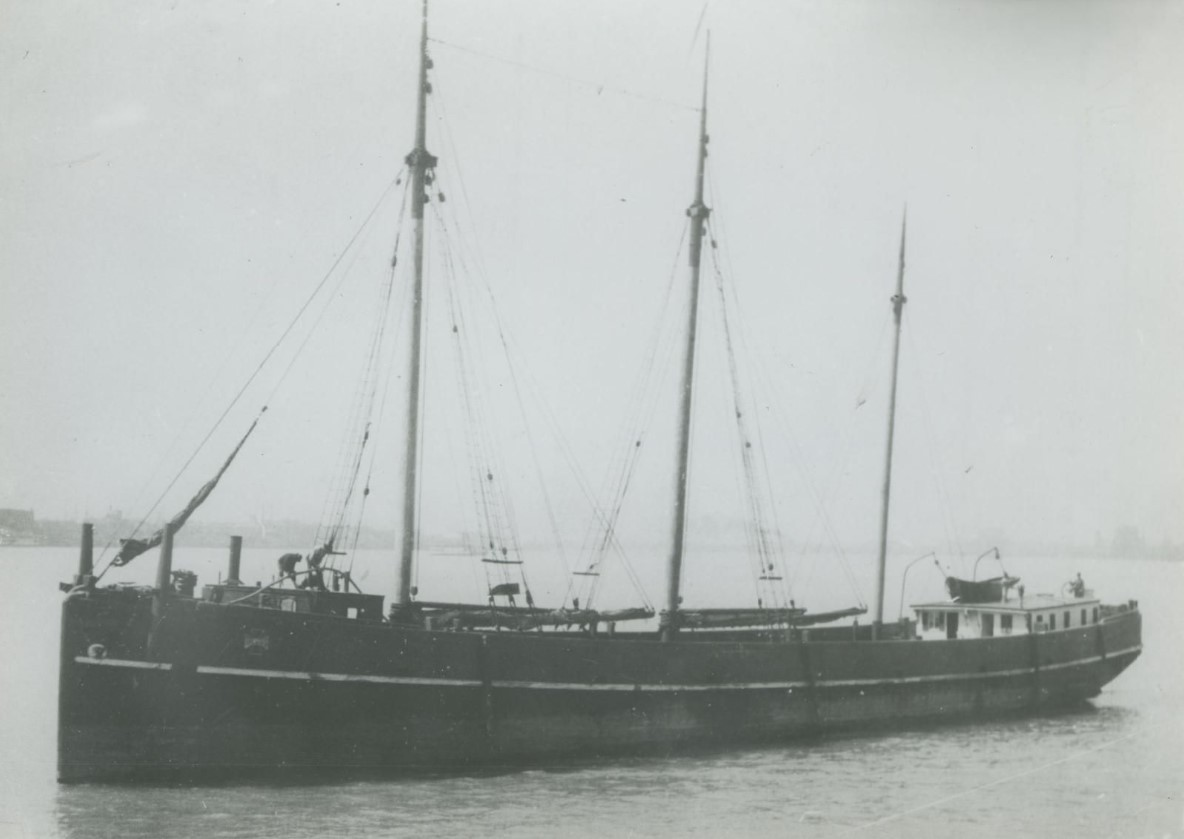 The schooner barge Antelope prior to her sinking